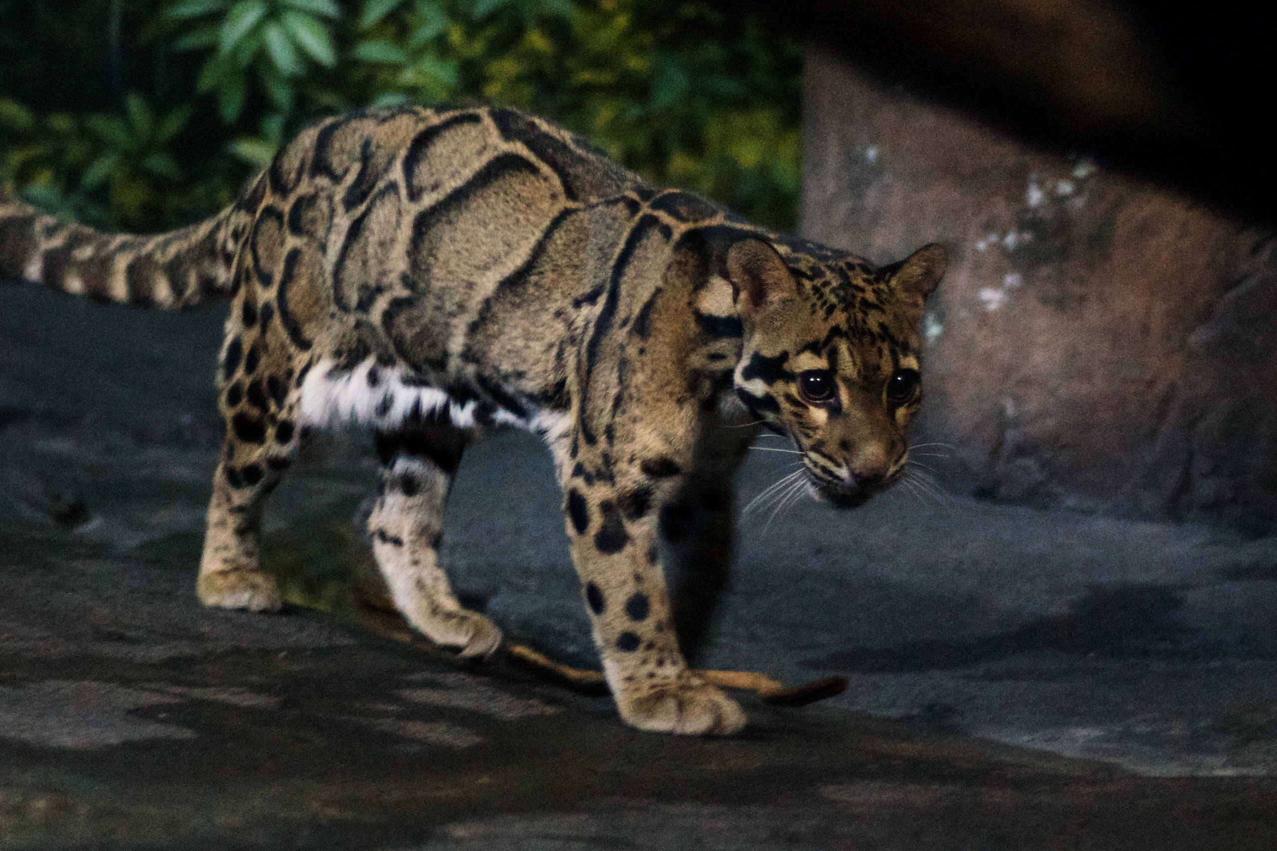 Walking Clouded Leopard in Cincinnati Zoo